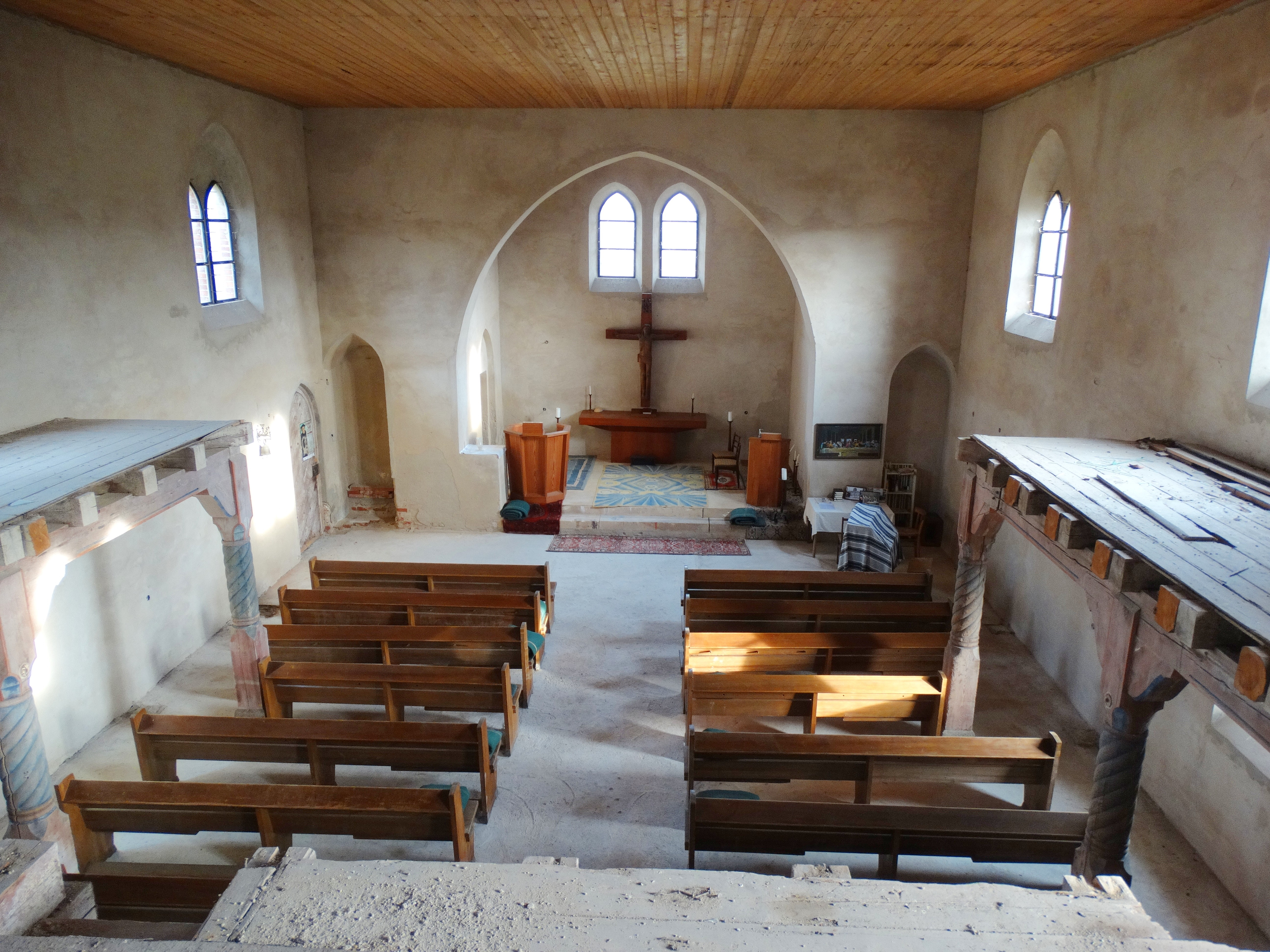 Lutheran Church, Žukai, Pagėgiai Municipality, Lithuania